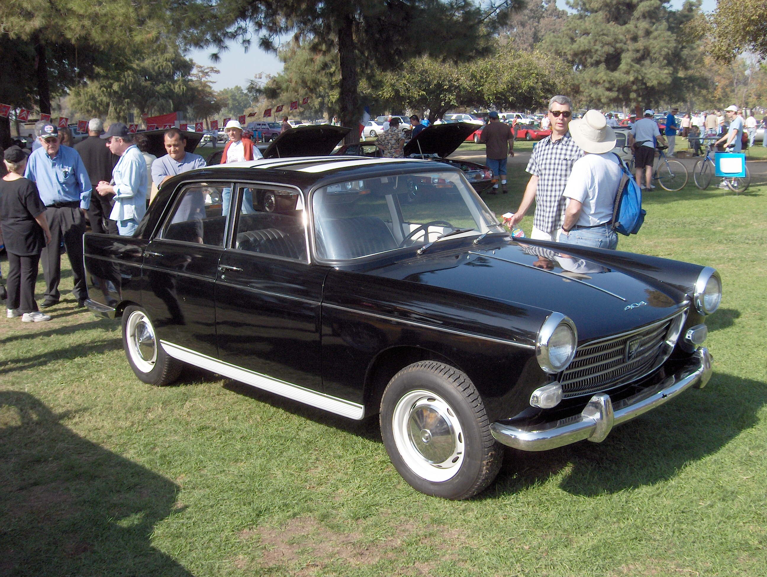 I took this photo in a public location.